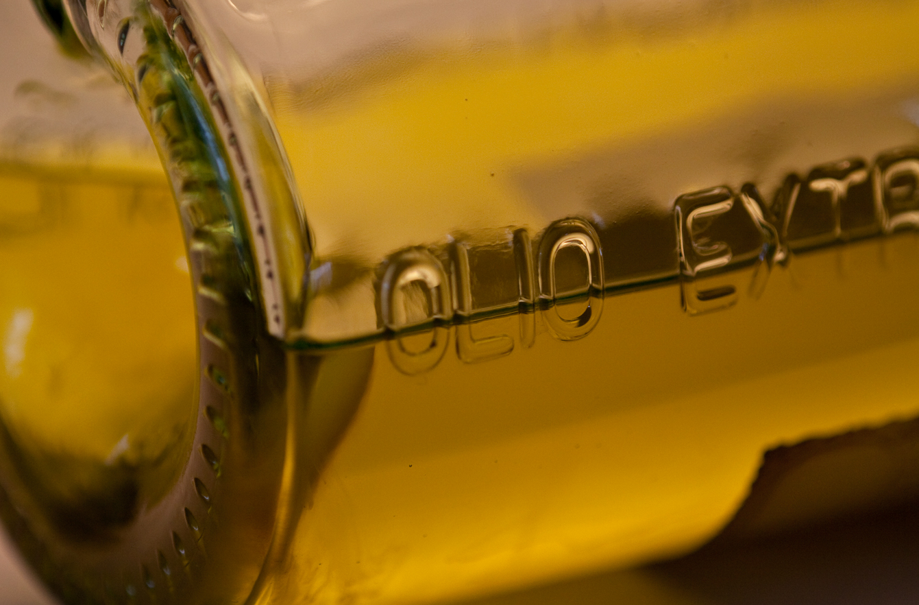 Macro Monday - theme: something Italian